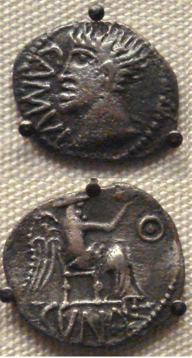 Cunobelin